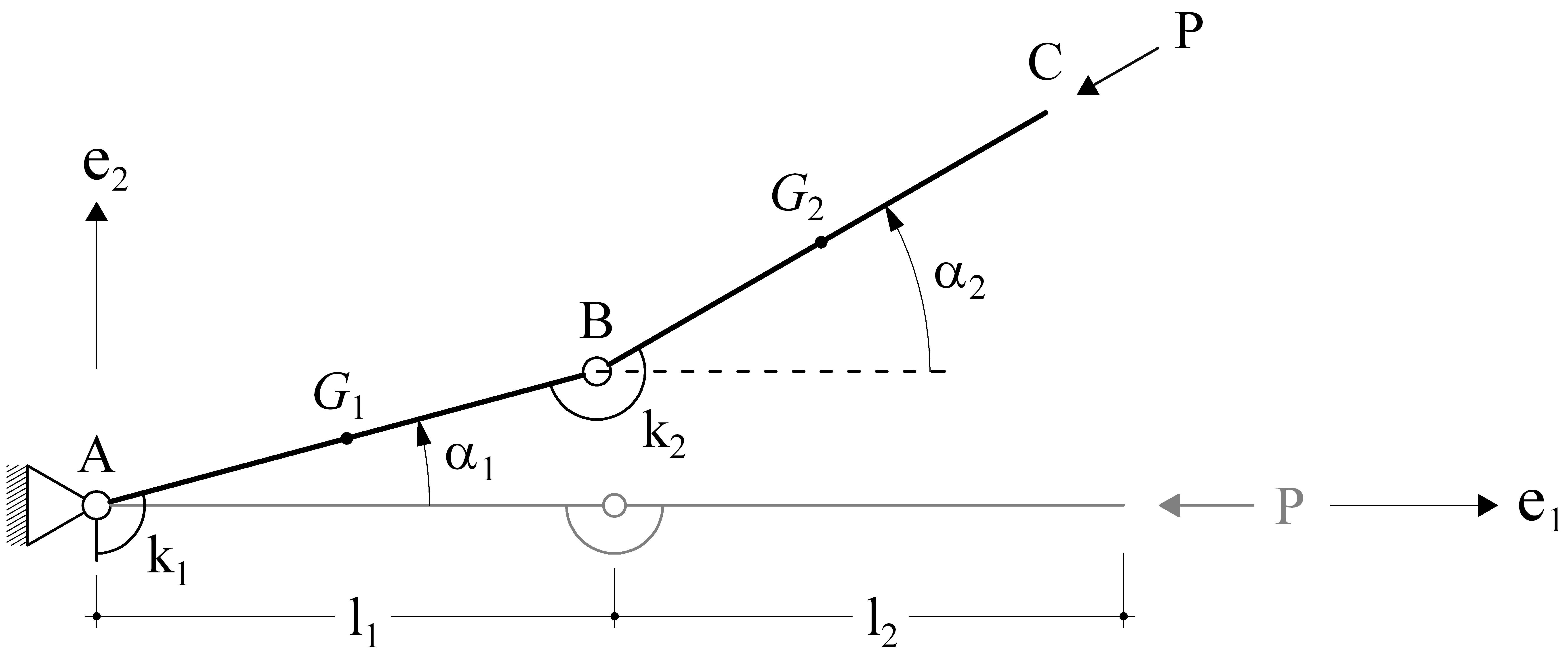 A sketch of the 'Ziegler column', a two-degree-of-freedom system subject to a follower load exhibiting flutter and divergence instability